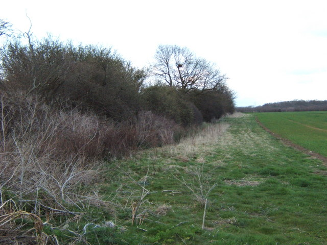 Beetle Bank This is an example of a change in farming practice due to . alteration to agricultural subsidies. In the past hedges would be grubbed up to gain maximum return. Now it has become more economic for farmers leave a fallow strip around a field as a “beetle bank” allowing invertebrates to live and provide food for birds and other animals. Also the strip means that herbicides and pesticides are less likely to damage the wildlife in the hedgerows. The photo was taken from the side of the B1023.